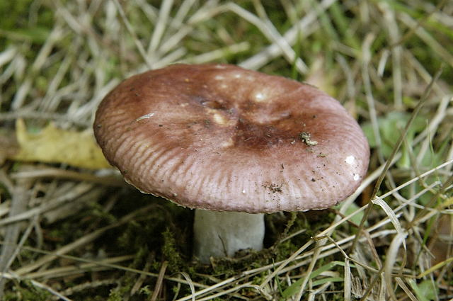 Russula spec. from Commanster, Belgium. The determination of the species shown in this picture has been verified.